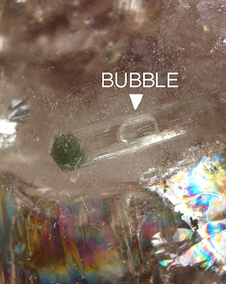 Quartz Locality: Araçuaí, Jequitinhonha valley, Minas Gerais, Southeast Region, Brazil (Locality at ) Size: cabinet, 9.9 x 5.0 x 4.4 cm Moving Water bubble inside Quartz ps. Tourmaline, within Quartz OK...where to start? This specimen features a forest of tourmaline inside, except the tourms are now hollowed cores, except for their tips having been replaced by quartz . Why the green tips remain, I cannot say. In one of those hollowed-out tourmalines that is now quartz, a VERY evident water bubble serenely goes back and forth. its amazing to watch, inside its cage. The replaced tourmaline and others, empty of bubbles, all float within the core of this large polished quartz crystal. This is one of those rare polished inclusion pieces that I just fall in love with despite not generally liking polished pieces. When the inclusion is rare enough to warrant it, or spectacular enough like here, I'll take it!